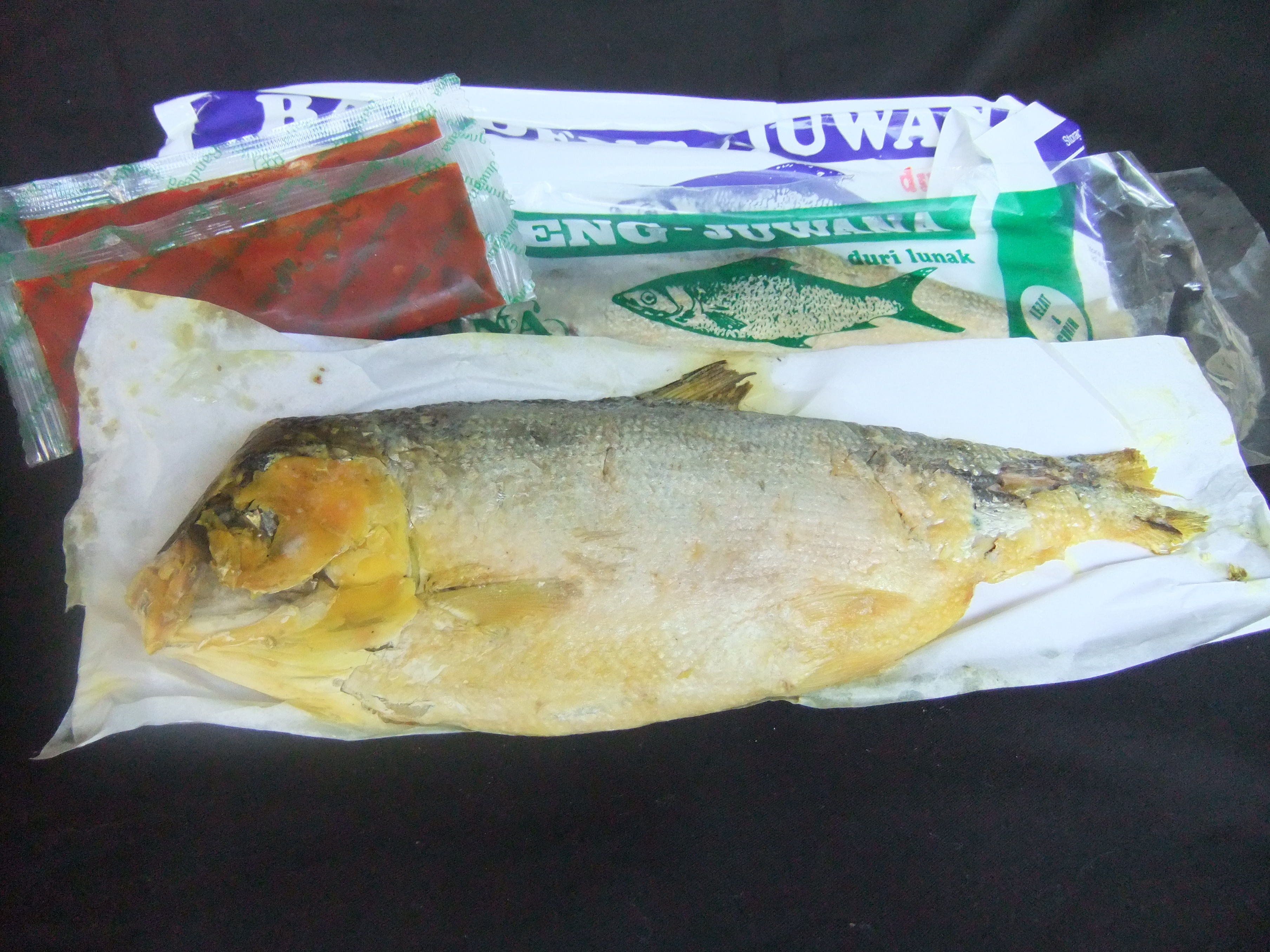 Bandeng Presto, pressure cooked Milkfish